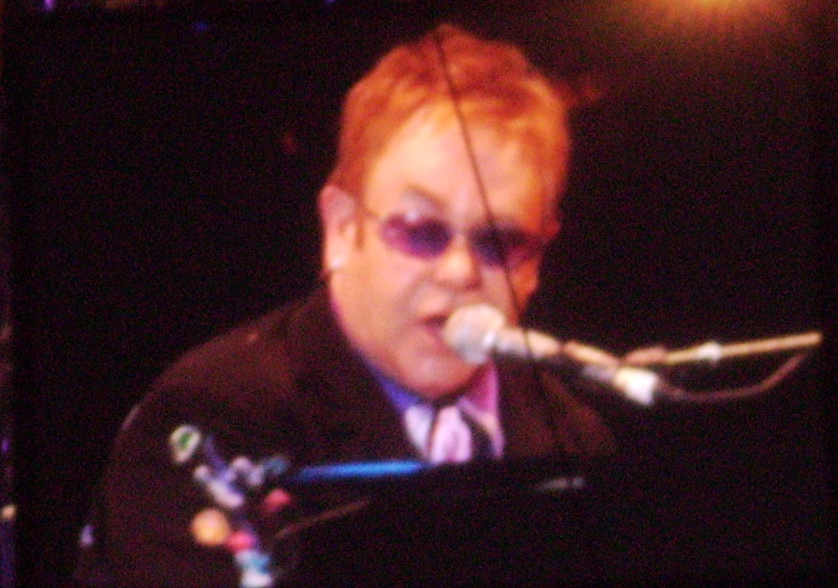 Elton John